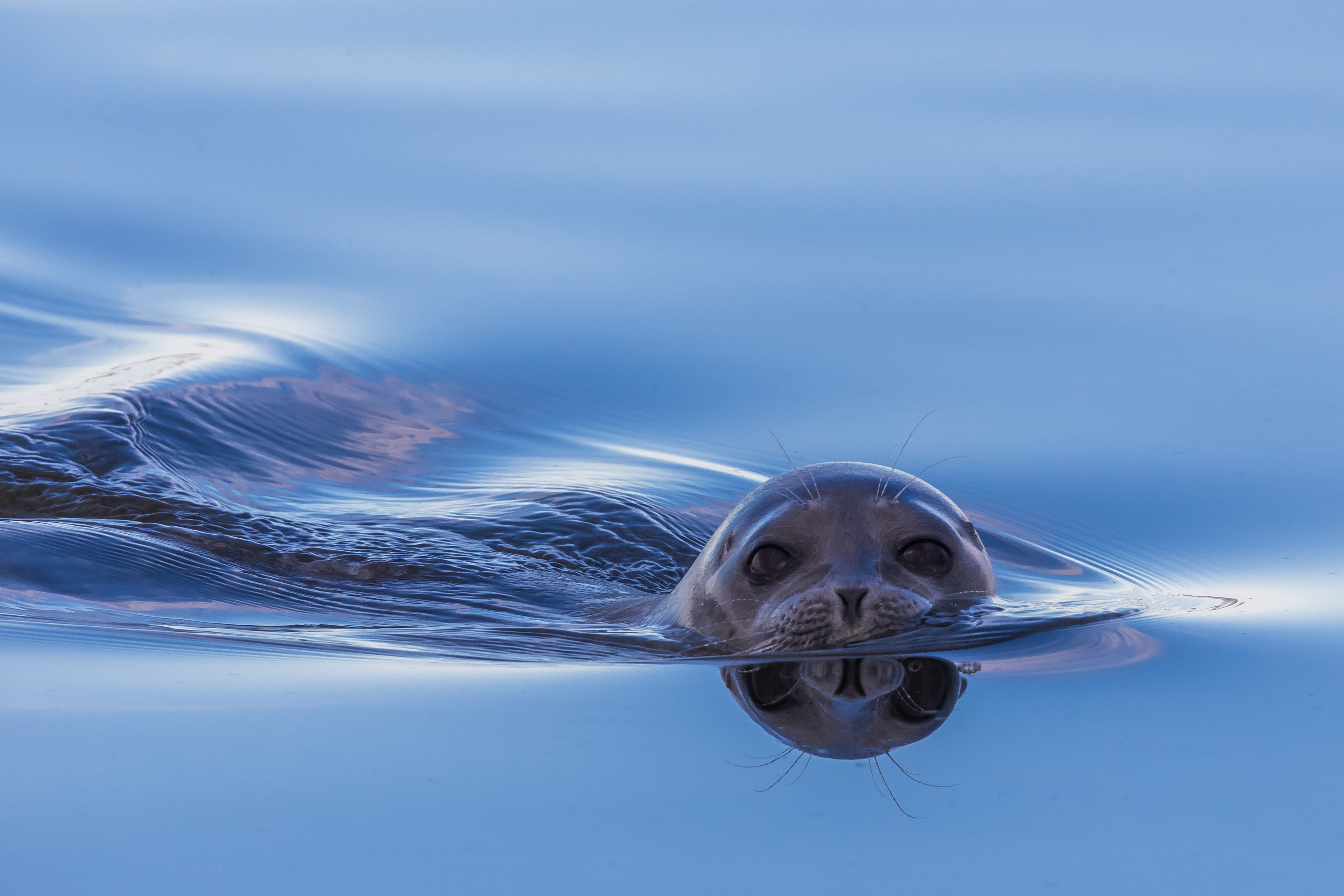 Look of ringed seal (Pusa hispida). Near Bolshoy Begichev Island in the Laptev Sea, Terpey-Tumus, Yakutia, Russia